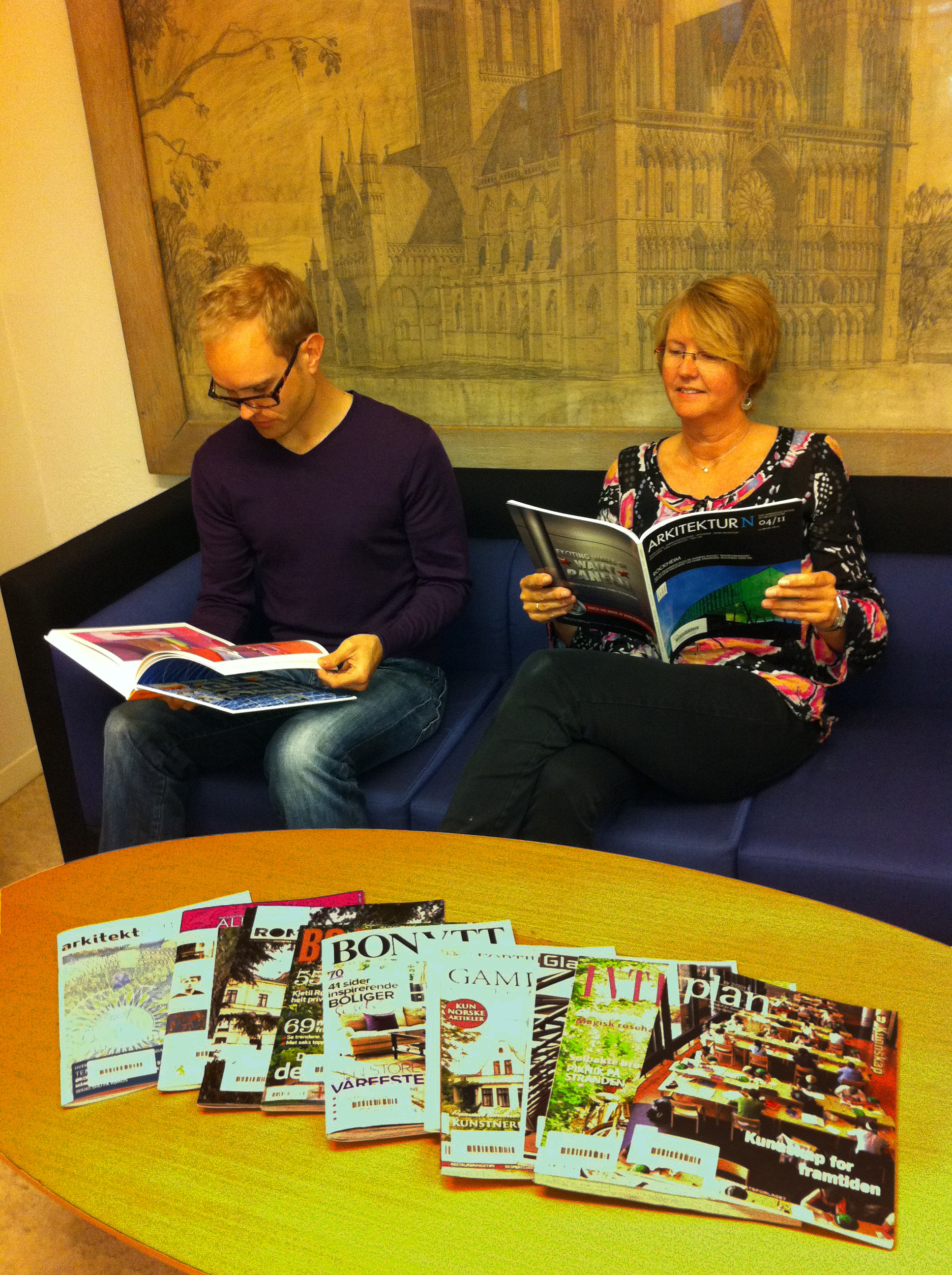 Norwegian architecture journals in The NTNU University Library, Library for architecture, civil engineering and product design